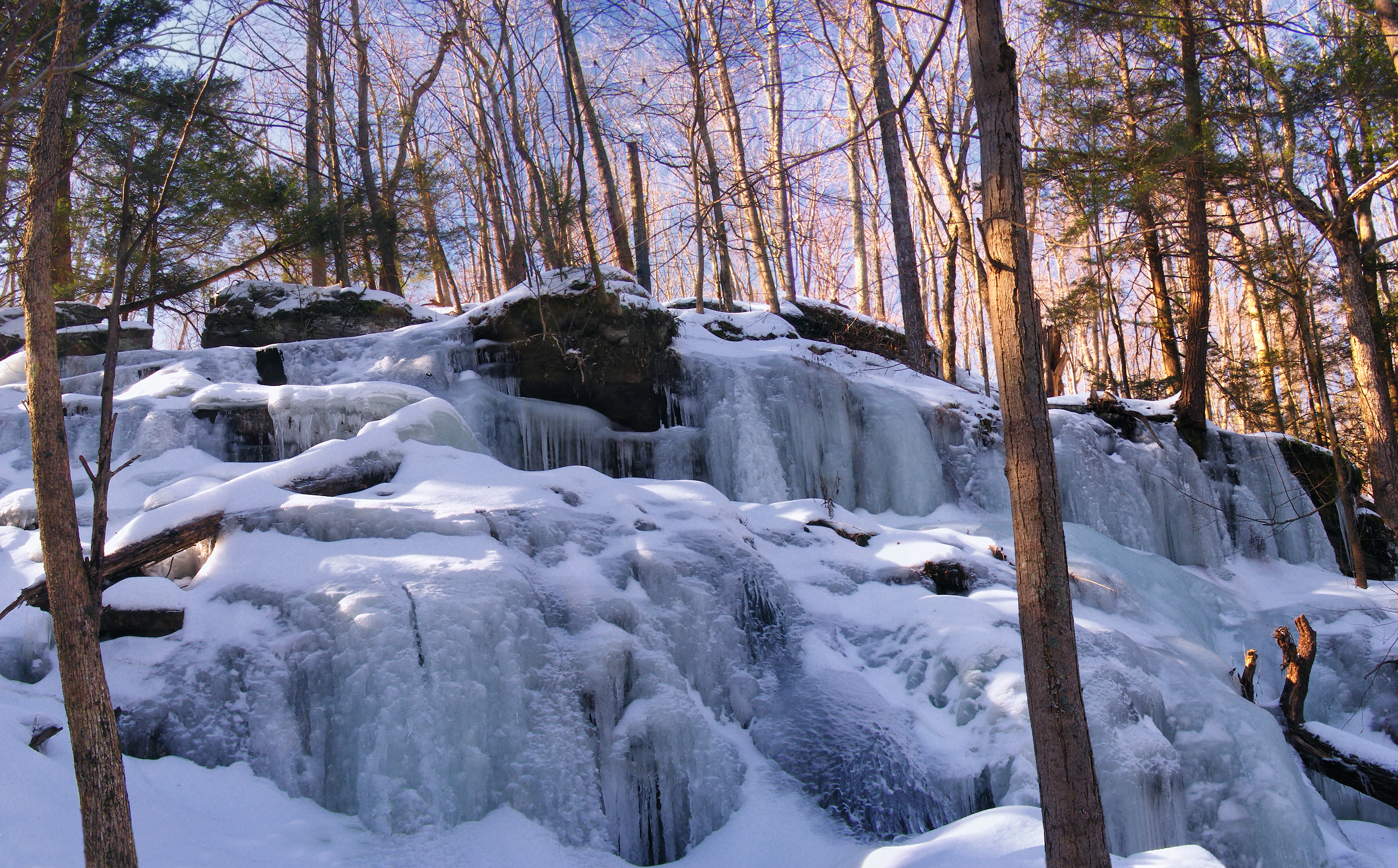 Stairway Falls, Delaware State Forest, Pike County. Fed by an unnammed tributary of nearby Stairway Lake, the falls descends about 45 feet (14 meters) on a series of broad, rocky ledges. There was plenty of free-flowing water beneath the ice.